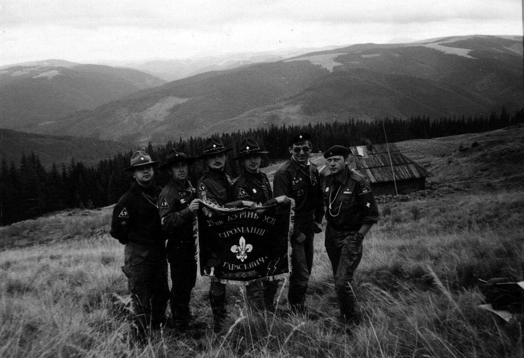 foto of members